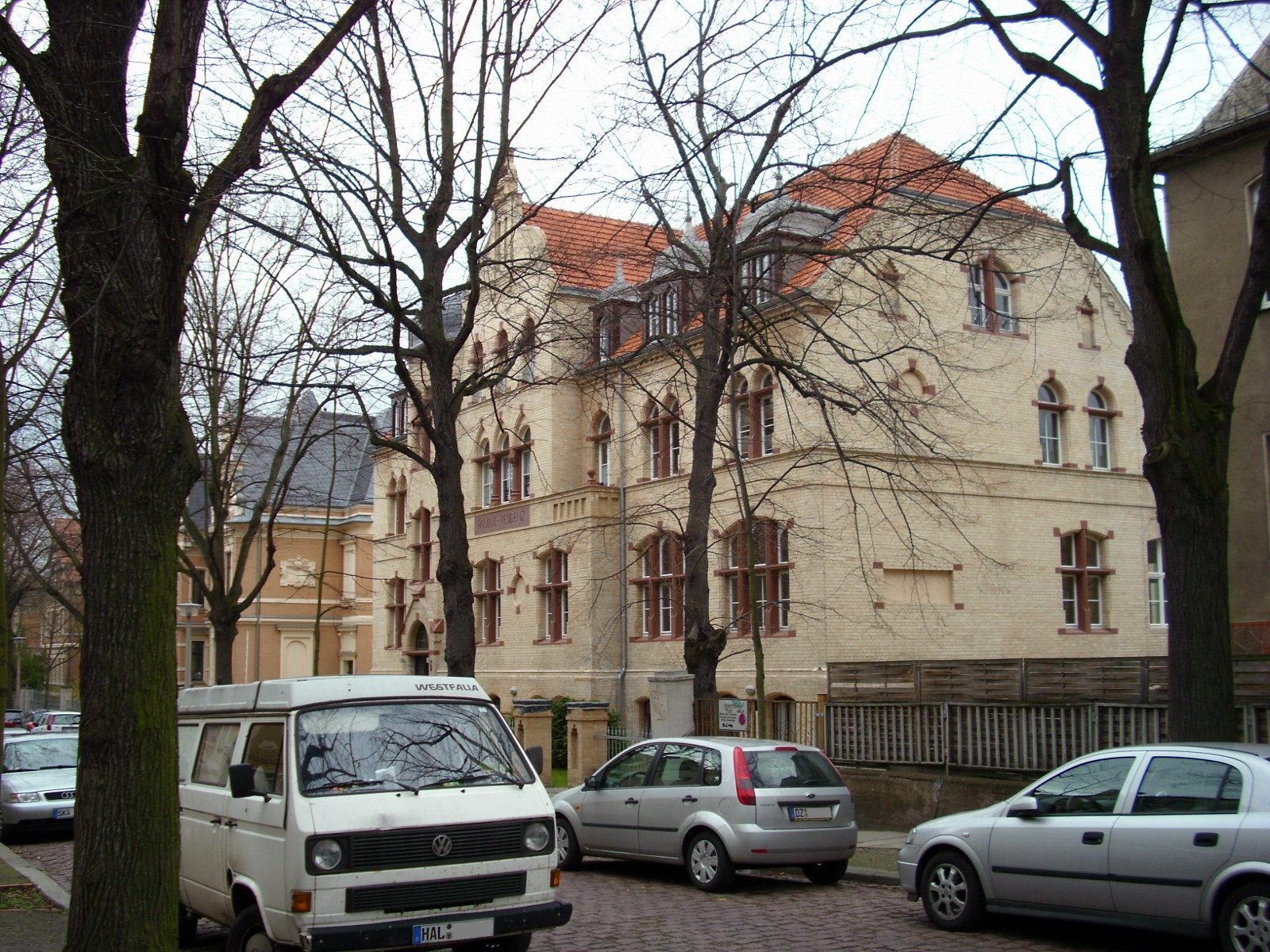 Second location of the Tholuckkonvikt (Herweghstraße 8, 06114 Halle)